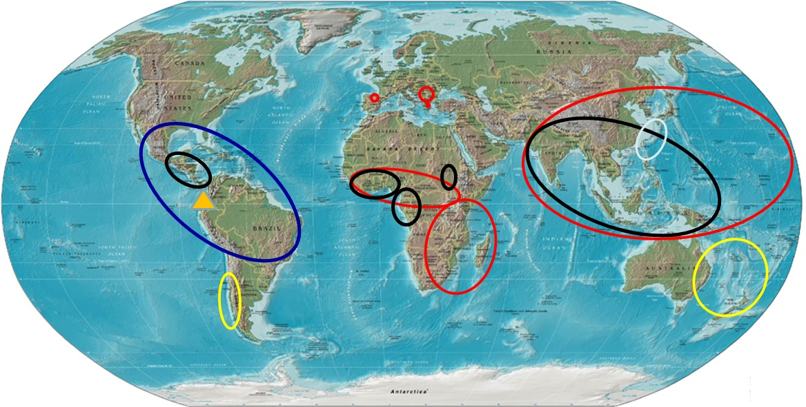 Rough distribution of Gesneriaceae [triangle] Sanangoideae, [white ellipse] Gesnerioideae-Titanotricheae; [yellow ellipses] Gesnerioideae-Coronanthereae; [blue ellipse] Gesnerioideae-Beslerieae+Napeantheae+Gesnerieae (“Core Gesnerioideae”); [black ellipses] Didymocarpoideae-Epithemateae; [red ellipses] Didymocarpeae-Trichosporeae.